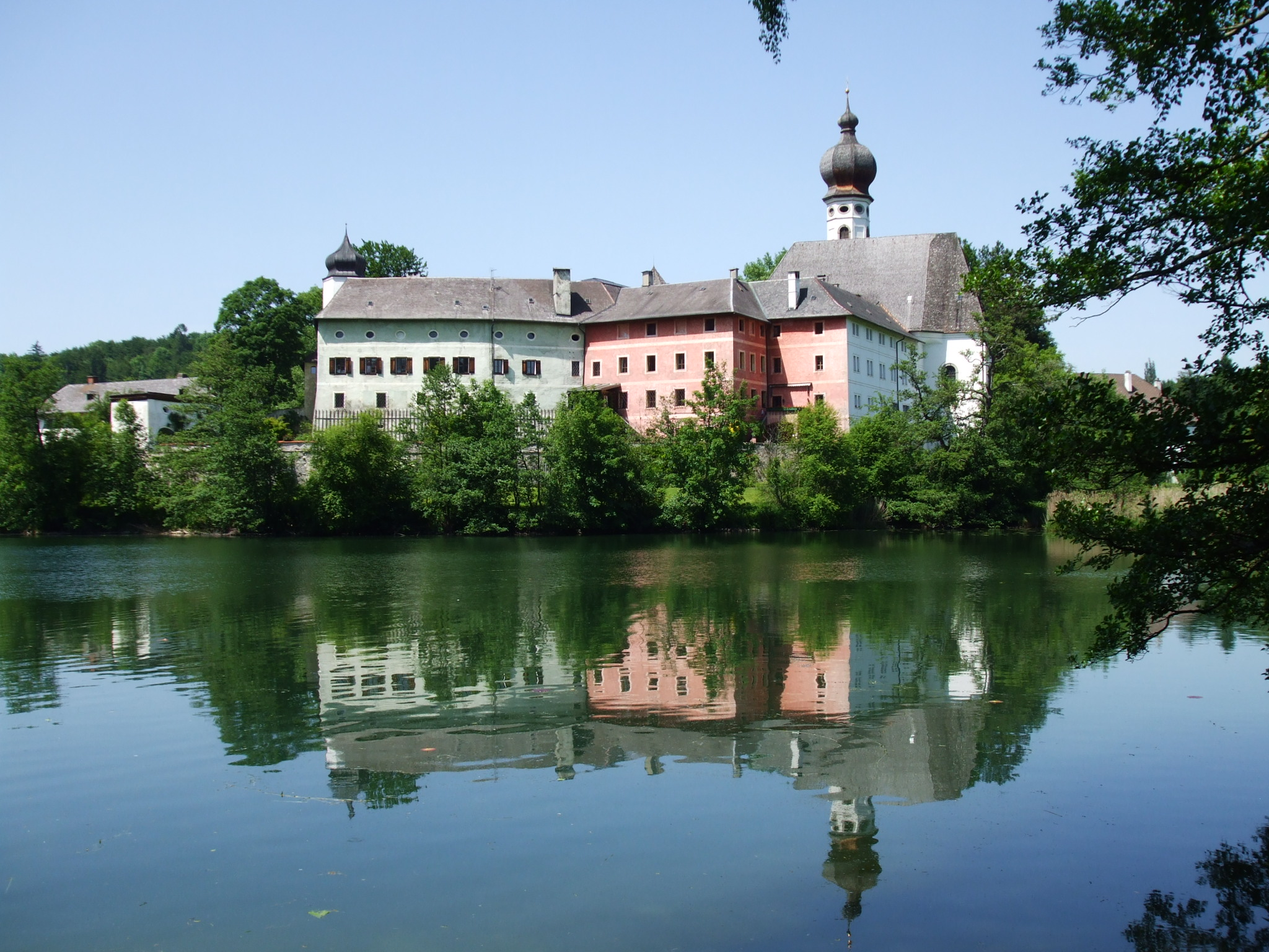 Kloster Höglwörth at Lake Höglwörth near Anger, Bavaria, Germany